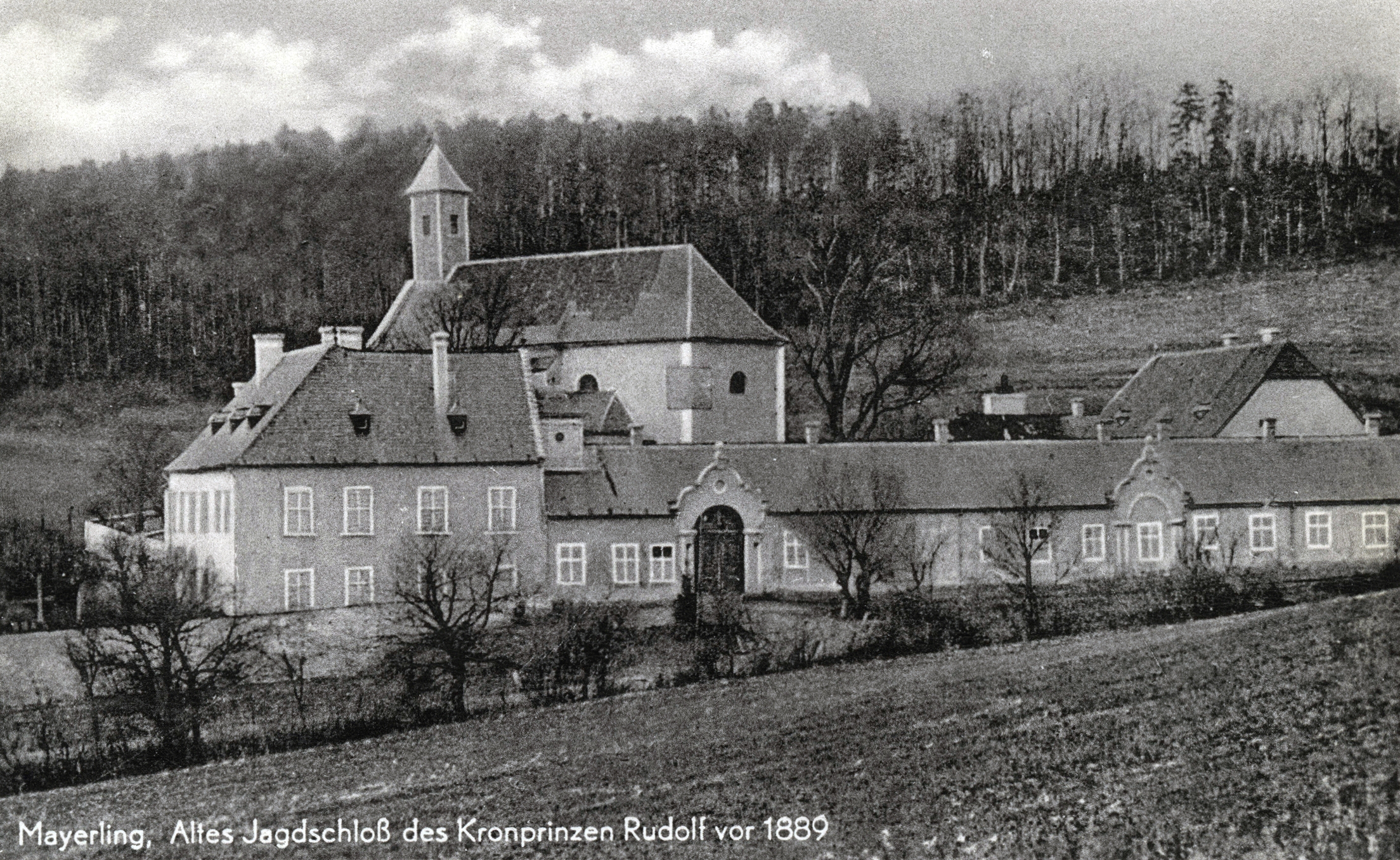 The hunting lodge and outbuildings at Mayerling, before 1889